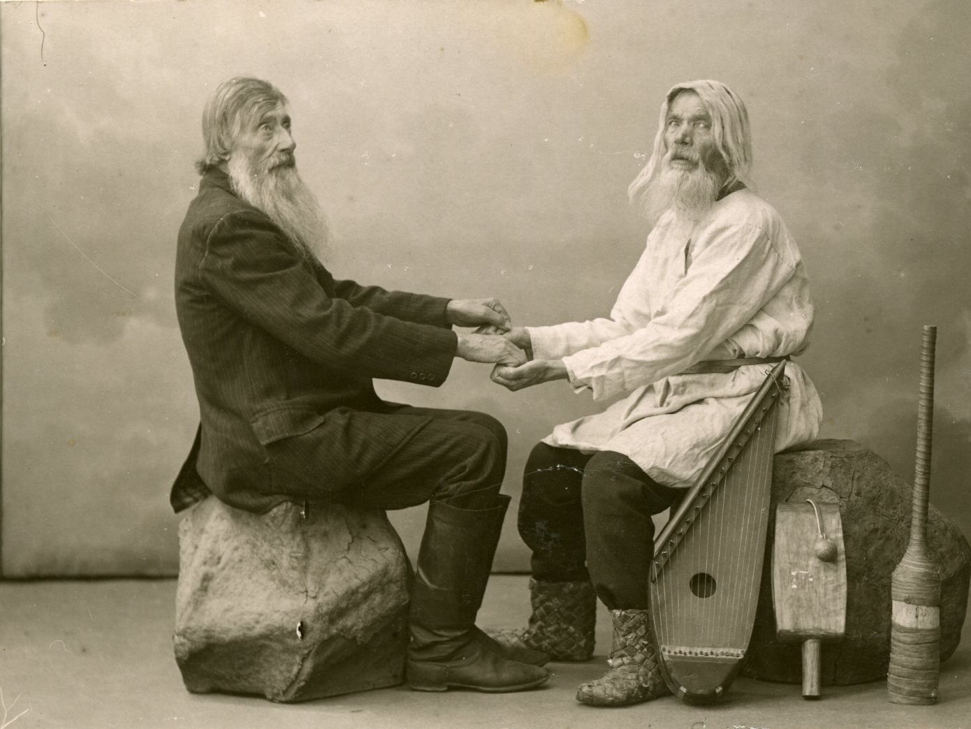 Rune singers Iivana Onoila and Jelisei Valakainen in Terijoki, 1911. Sm id_nr: 5941. Photo: unknown. Date: 1911. Archive of the Sibelius Museum - Sibeliusmuseums arkiv - Sibelius-museon arkisto.